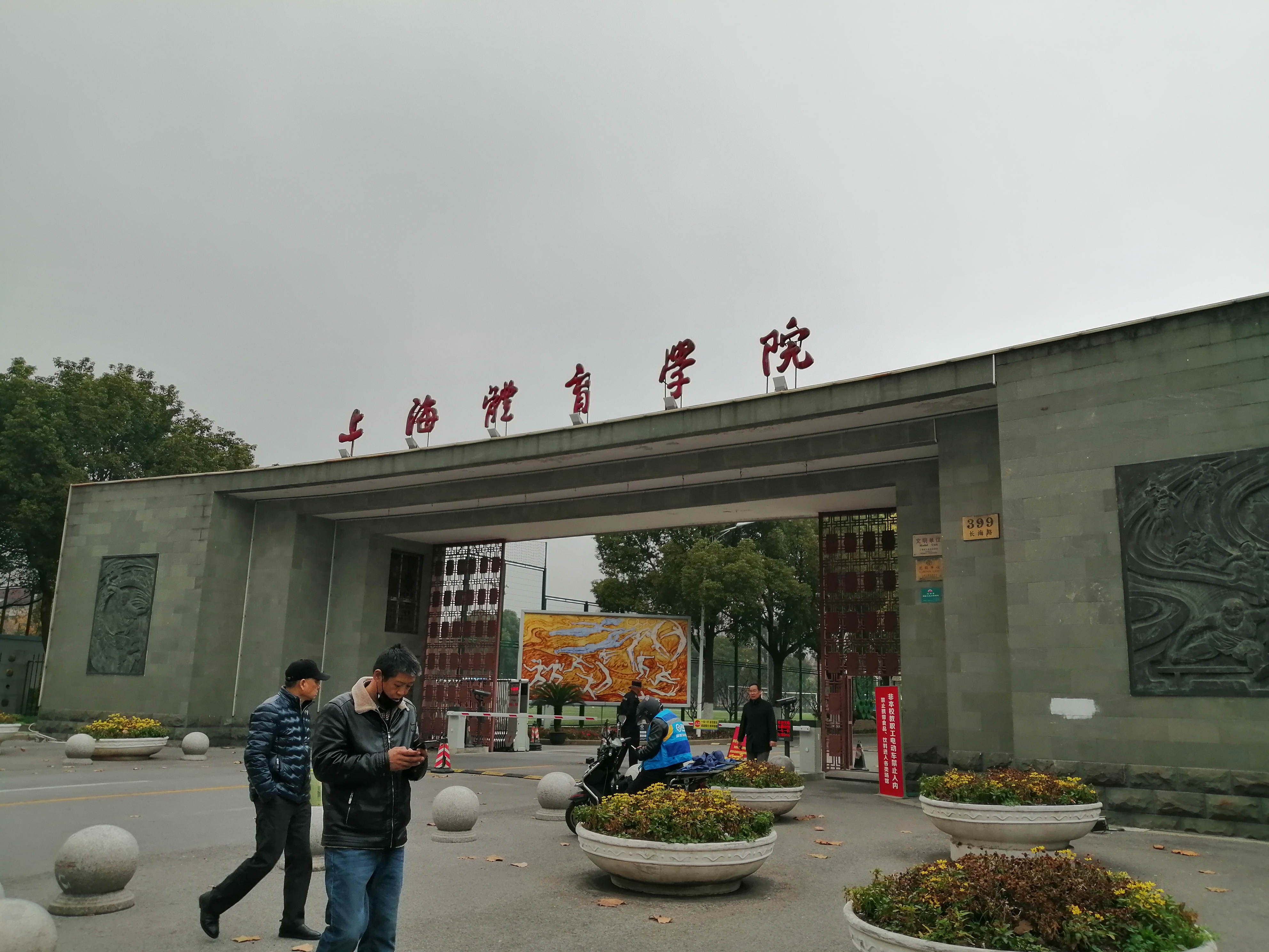 Shanghai University of Sport, located on 399 Changhai Road, Yangpu District, Shanghai. 中文（中国大陆）: 上海体育学院，位于上海市杨浦区长海路399号